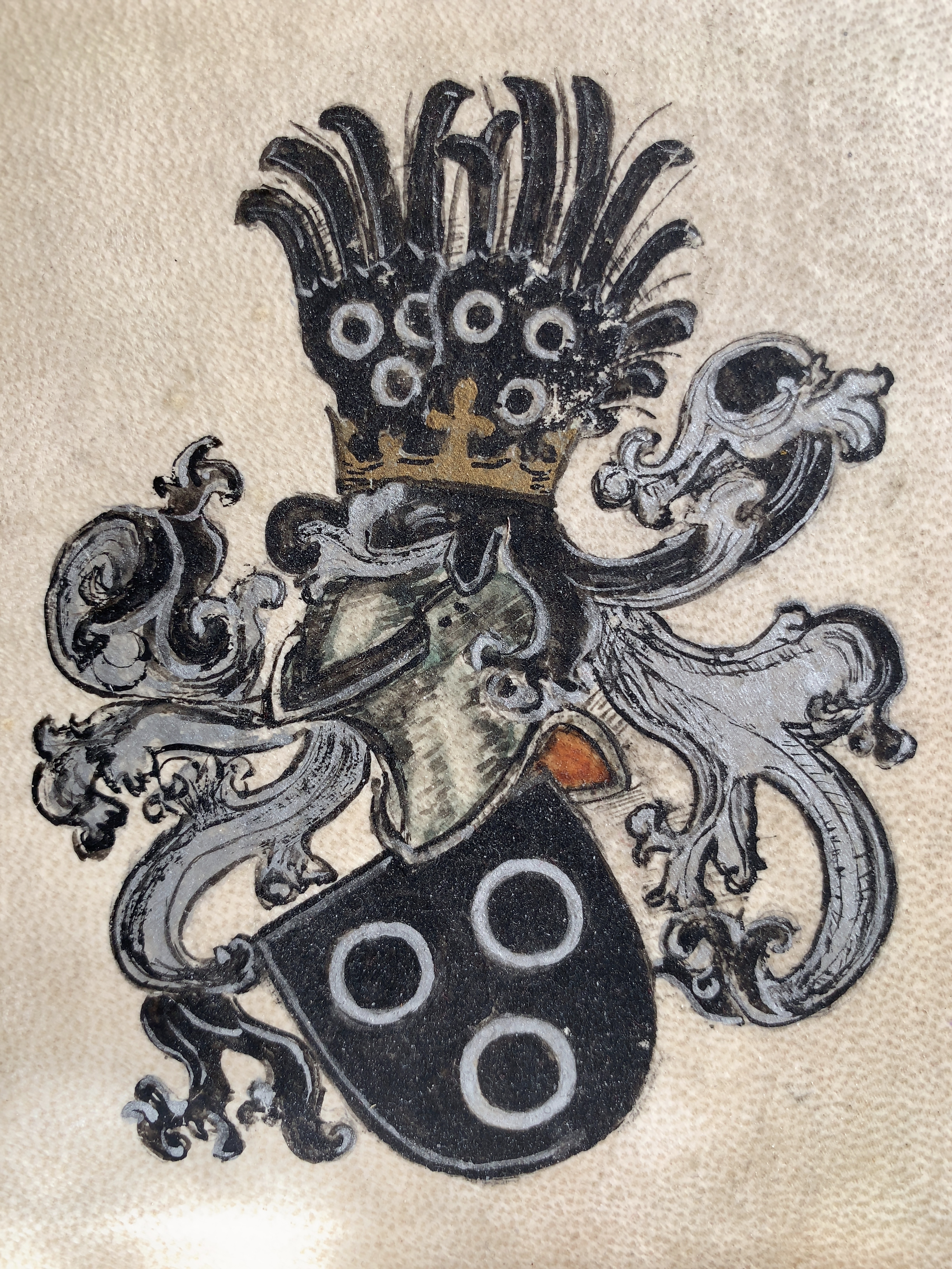 Heraldik- Family crest